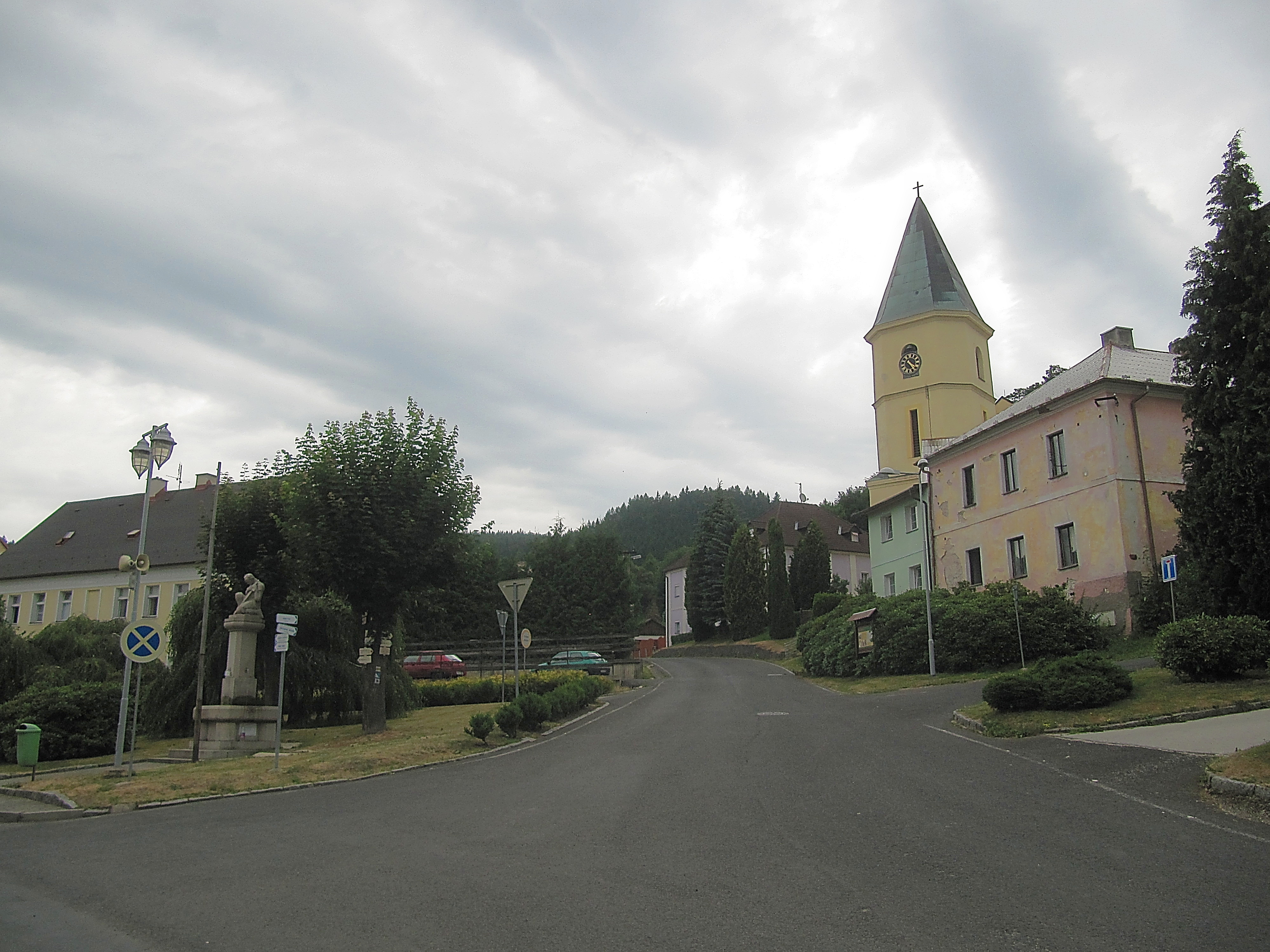 Lázně Kynžvart, Cheb District, Czech Republic. Square Náměstí Republiky with the Church of St. Margaret.